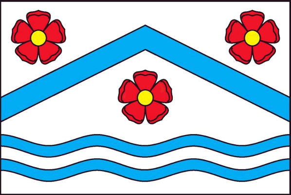 Flag of town Mokrý Lom, České Budějovice District, Czech Republic